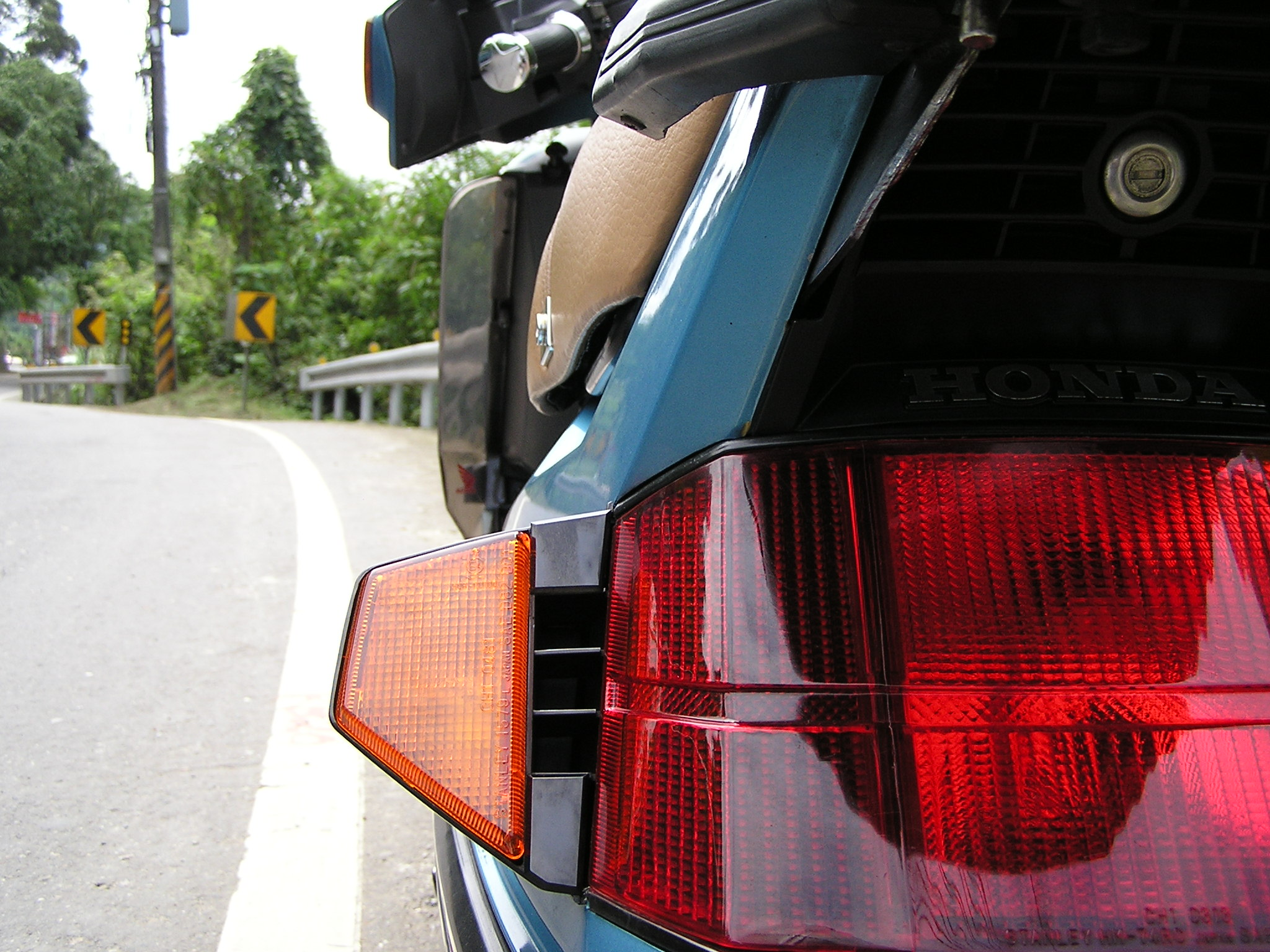 the rear left side signal of ch150 scooter